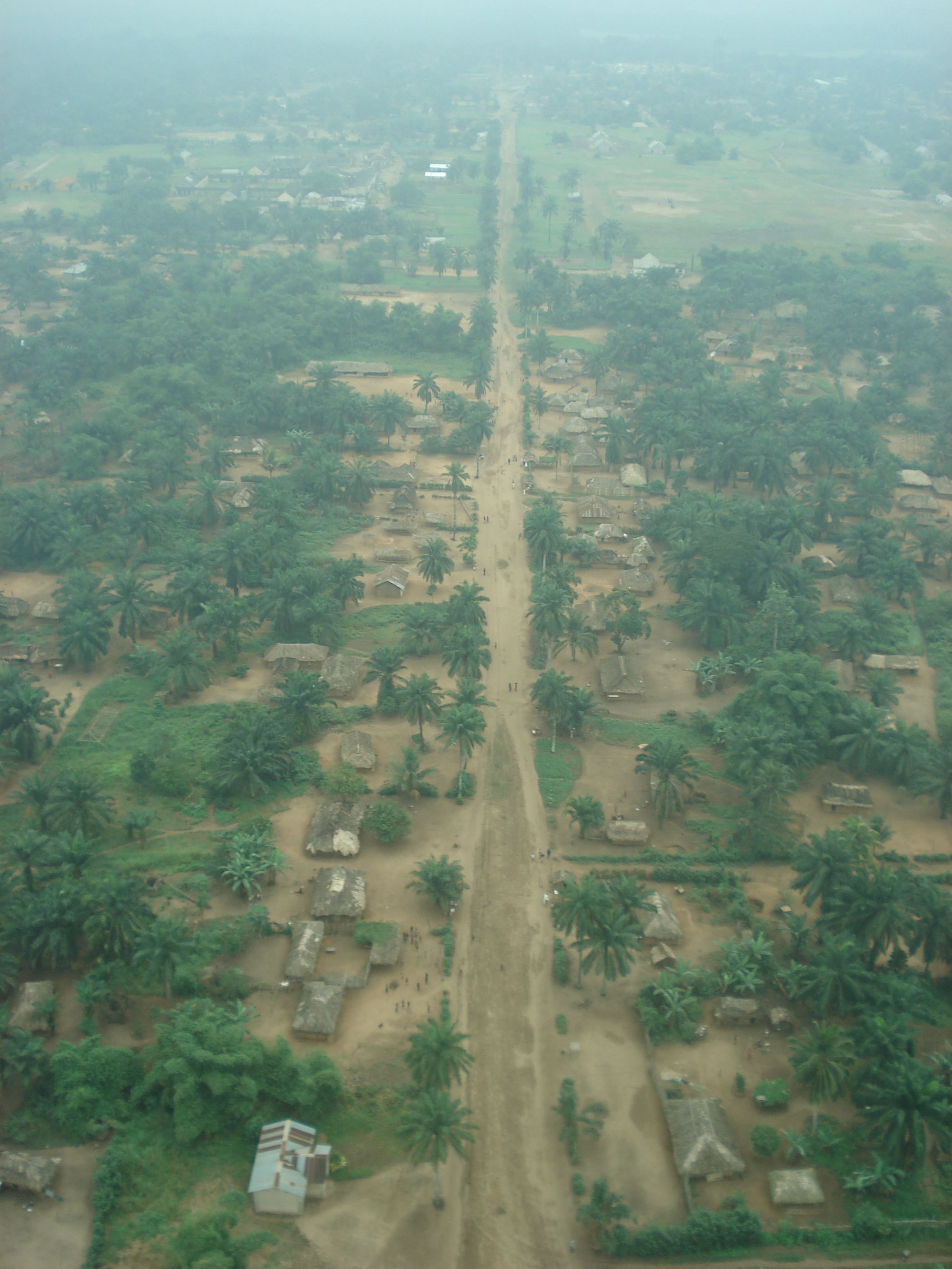 Aerial view of Kole, Democratic Republic of the Congo; Main thoroughfare; Hospital at upper left